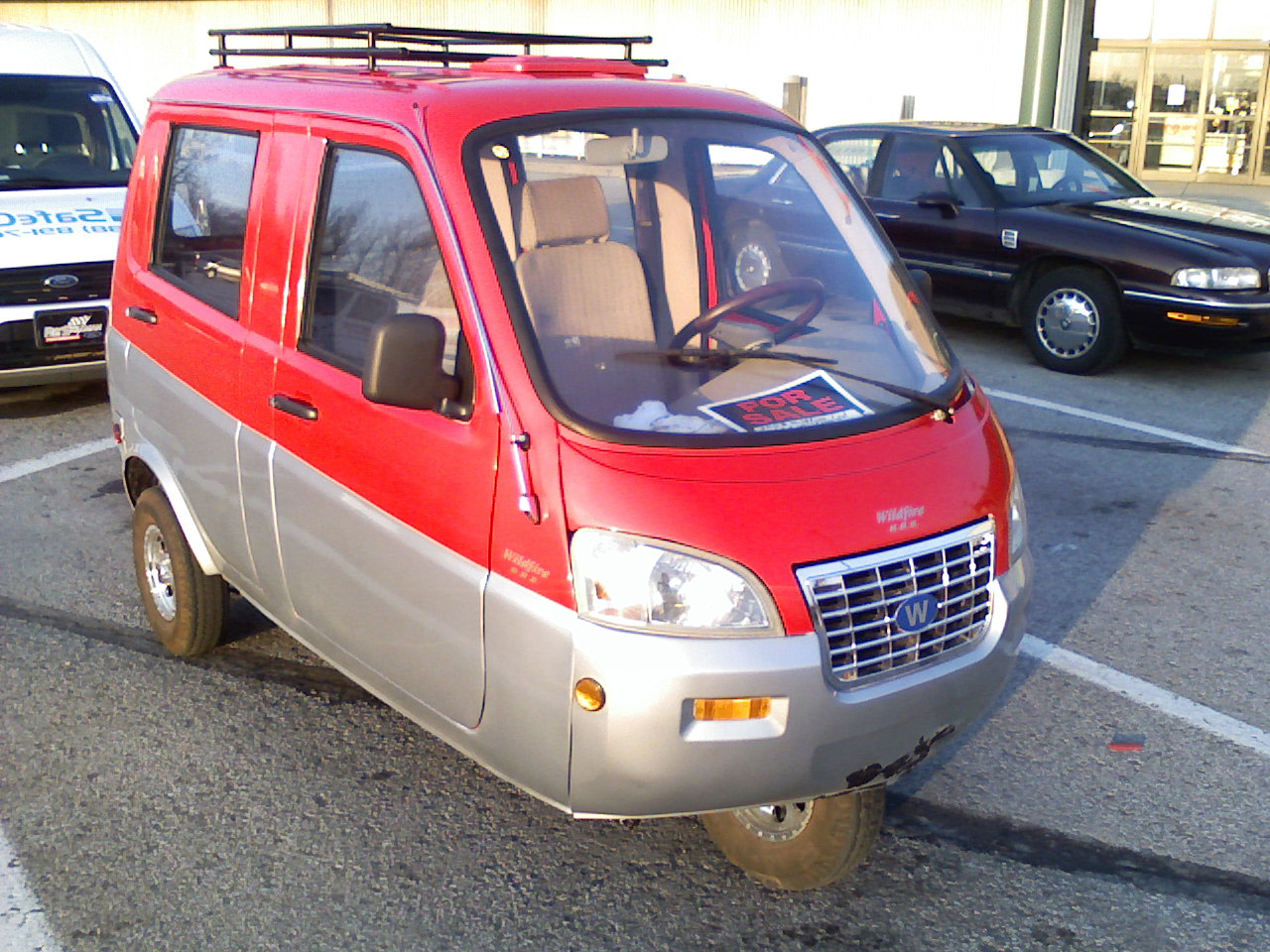 Wildfire (motor company) mini car, built in China